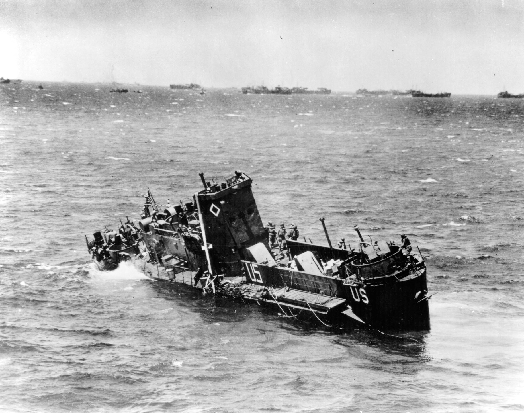 A sinking U.S. Coast Guard manned U.S. Navy LCI(L) limps alongside a transport to evacuate her crew, on "D-Day", 6 June 1944. Wartime censors have painted out the landing craft's number, but she may be LCI(L)-85, sunk by German shell fire off "Omaha" Beach.